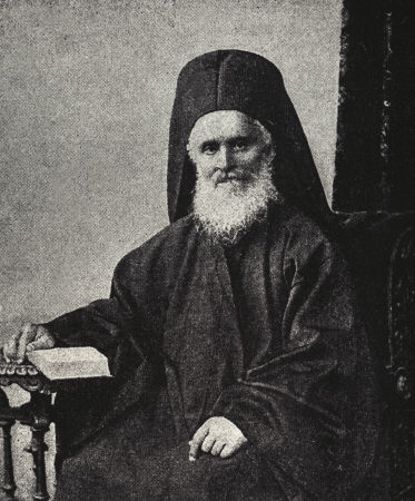 Ecumenical Patriarch Anthimus VII Ο Οικουμενικός Πατριάρχης Άνθιμος Z΄, τσιγκογραφία